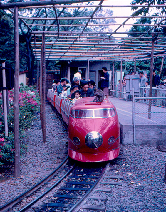 "Monkey train" for children in the Zoo, Ueno Park, Tokyo. The train is designed after the high-speed Bullet Train. The Bullet Train was still new in 1967.